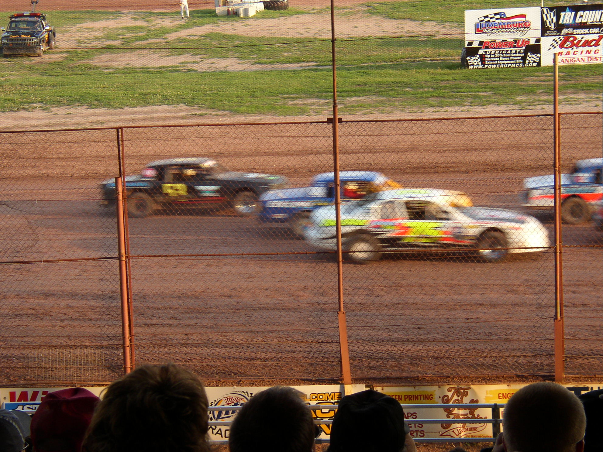 IMCA Stockcar racecars at Luxemburg Speedway (Wisconsin)